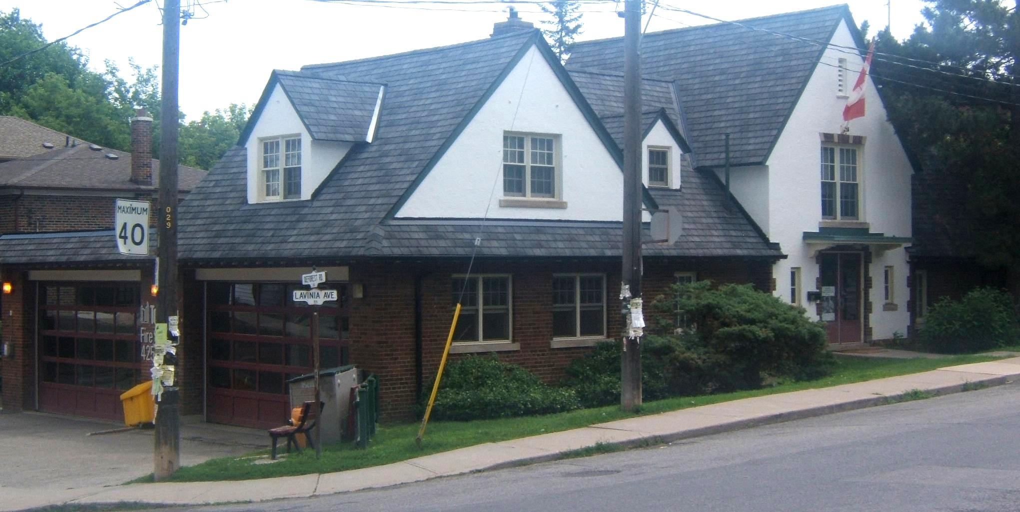 Swansea Firehall on Lavinia Avenue beside the former Swansea Town Hall